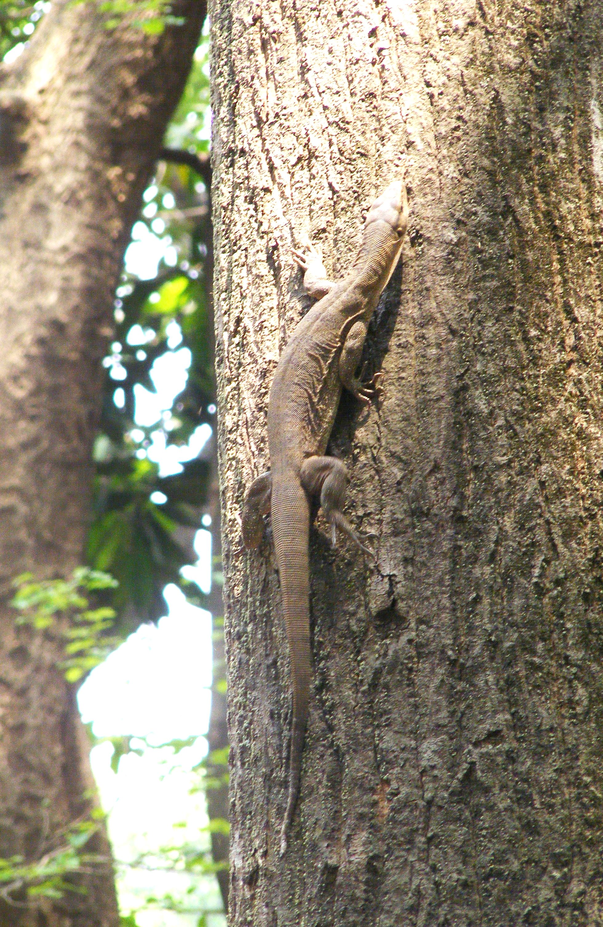 Common Indian Monitor or Bengal monitor Varanus bengalensis Karnala Bird Sanctuary Maharashtra